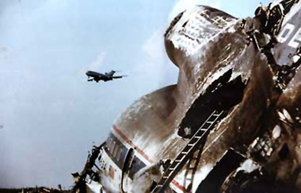 The wreckage of N726DA after the crash